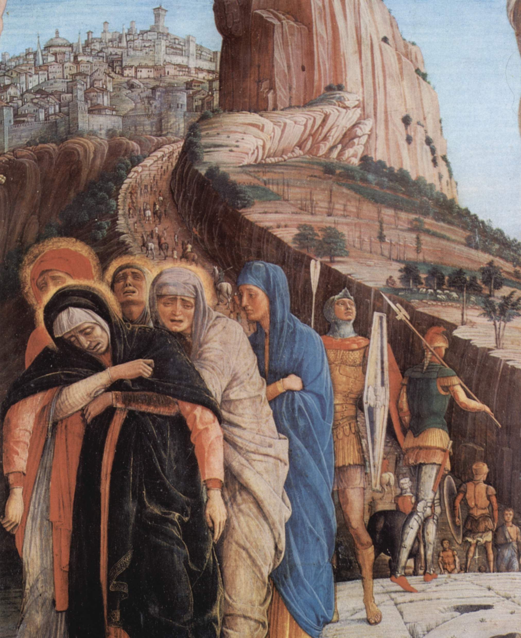 Triptychon, mittlere Predellatafel